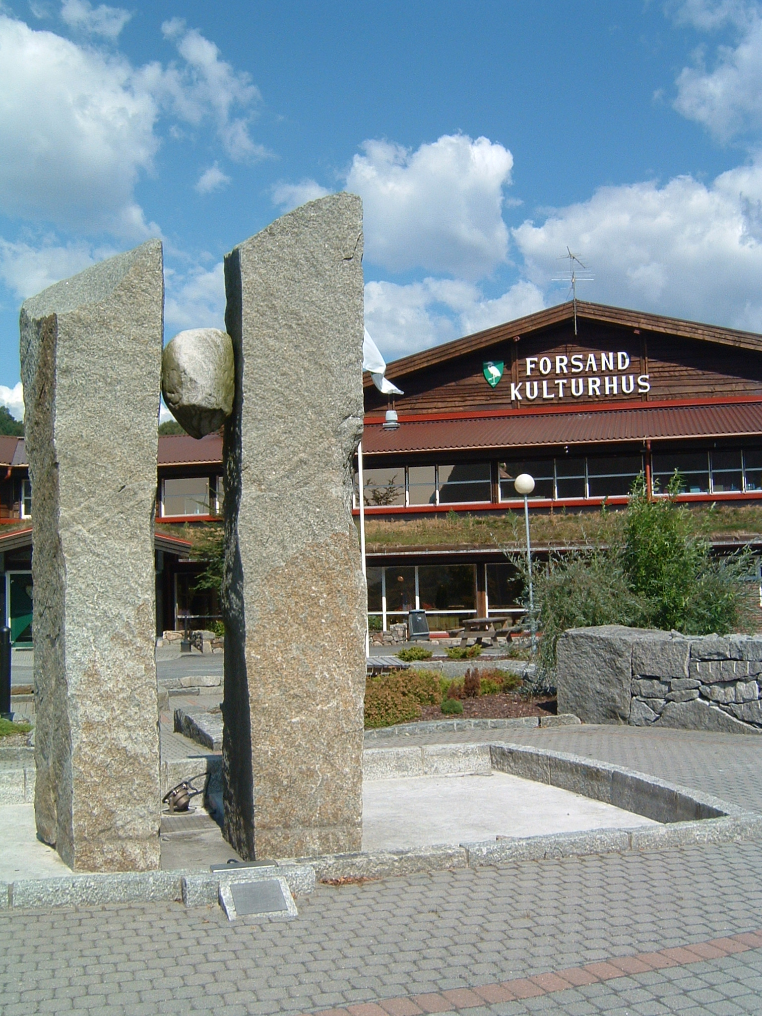 A picture of Forsand Kulturhus